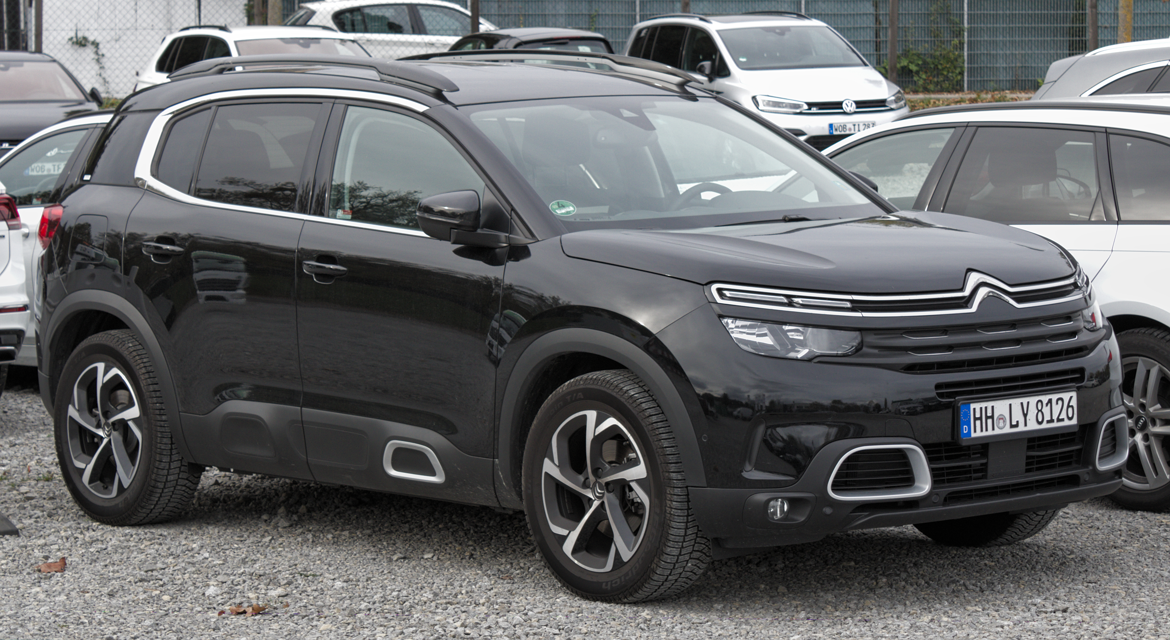 Citroën C5 Aircross in Stuttgart-Vaihingen